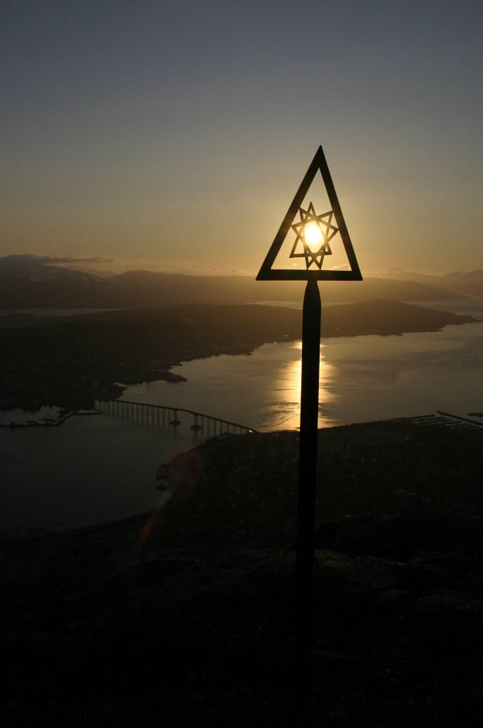 Midnightsun in Tromsø. Picture taken from the Mountain lift in Tromsø.